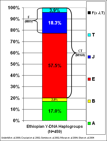 Graphic representation of Combined Y DNA Macro Haplogroup frequencies in Ethiopia gathered from different sources. (see picture for Sources)